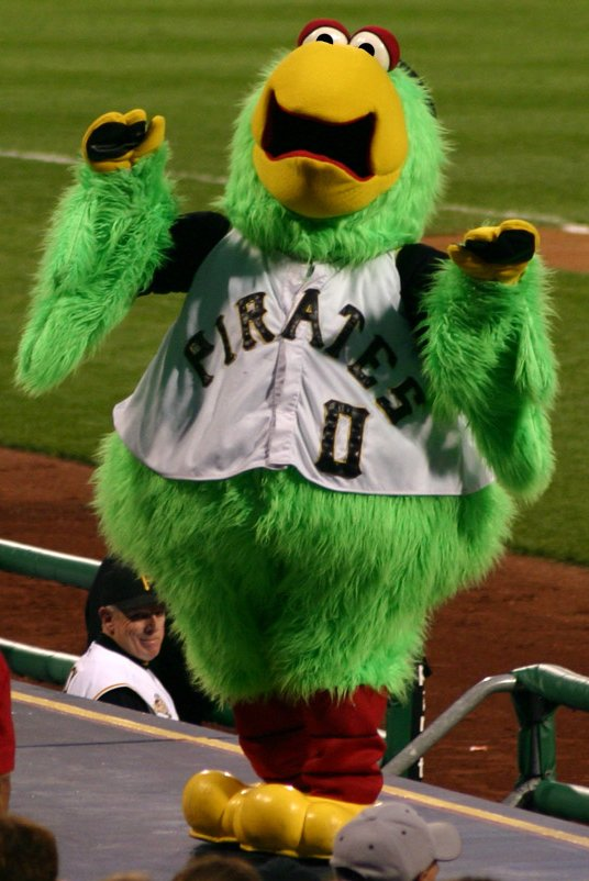 Pirate Parrot, mascot for the Pittsburgh Pirates. Cropped from File:Squawk!.jpg by Joey Gannon.